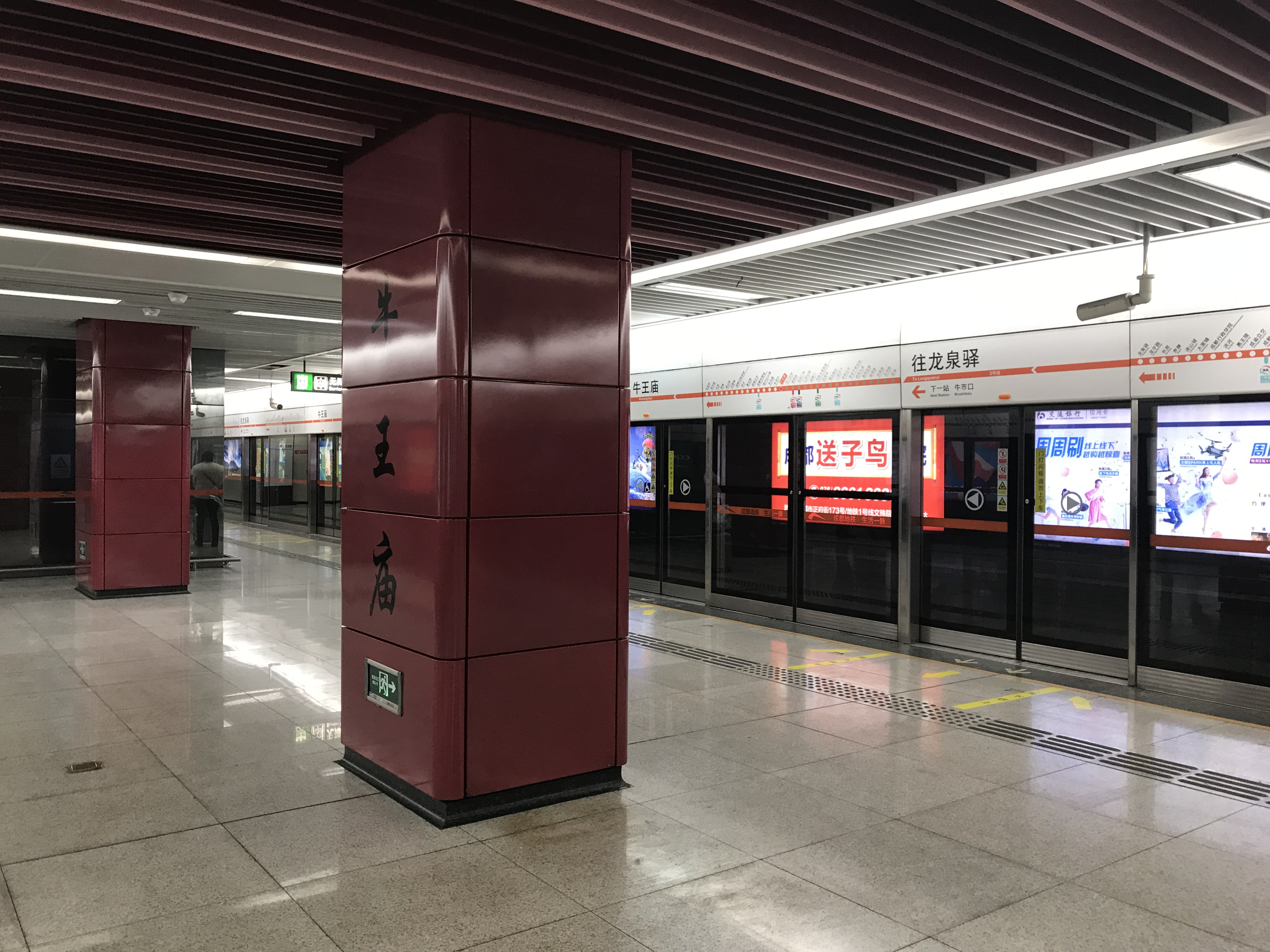 Platform of Line 2 in Niuwangmiao Station, Chengdu Metro